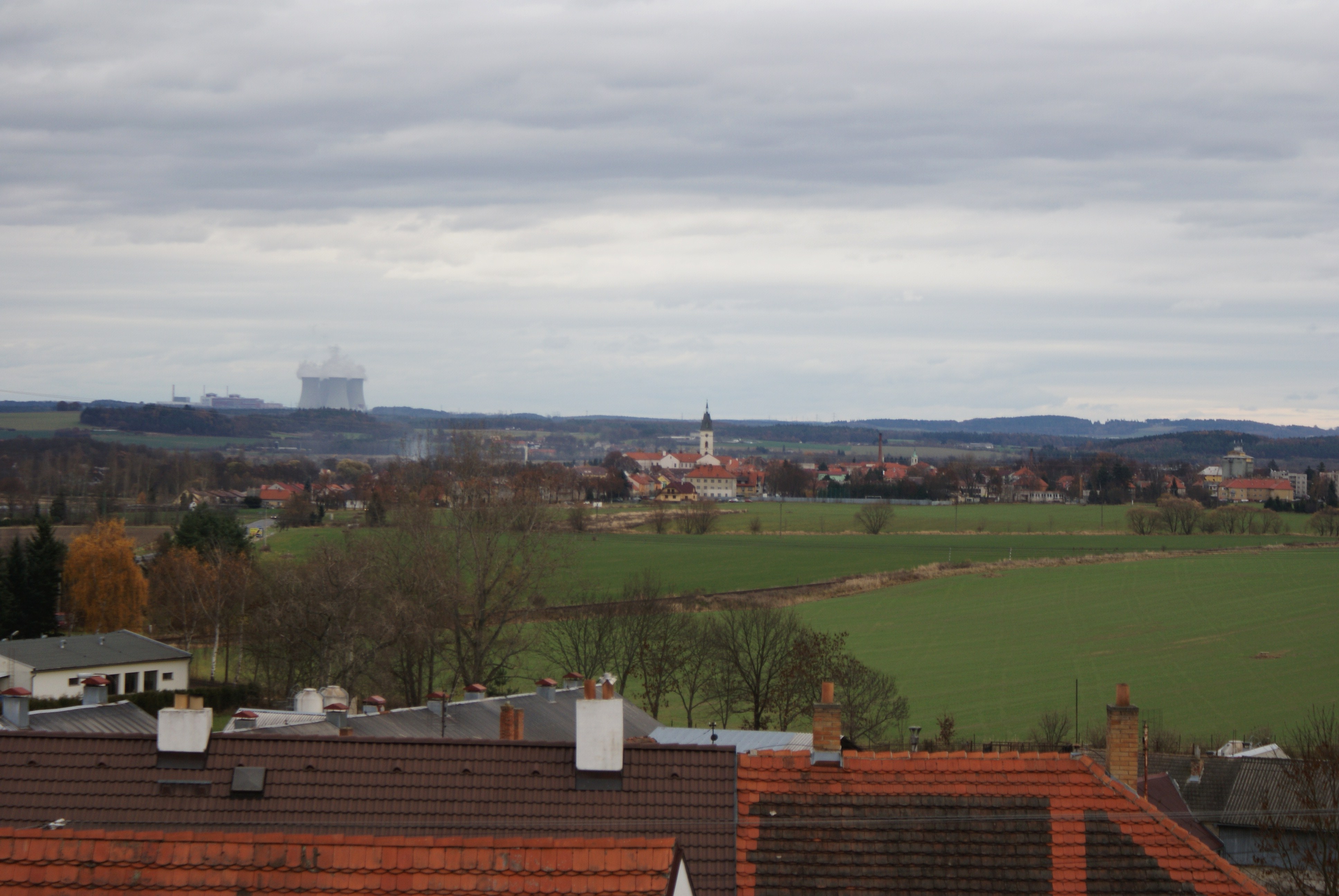 Vodňany a town in Strakonice district, Czech Republic, view from the west.